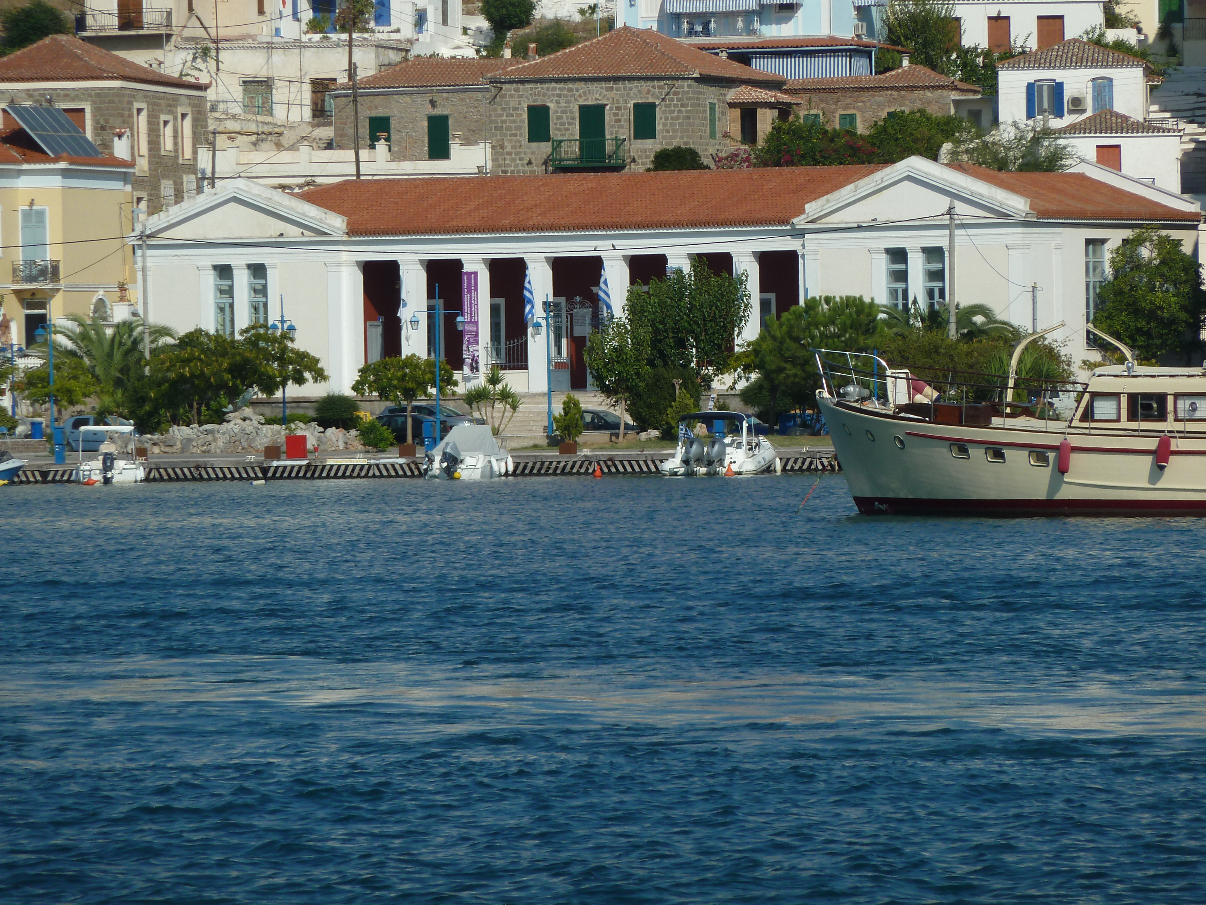 Neoclasicla Poros building